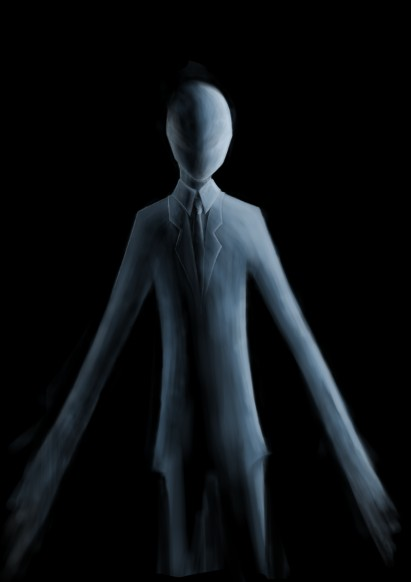 The Thin Man (The Slender Man)